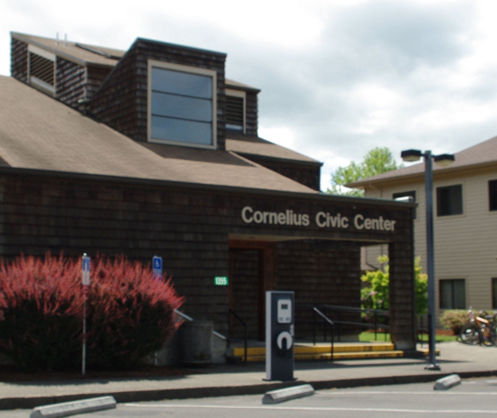 Cornelius, Oregon Civic Center that serves as city hall and the library.